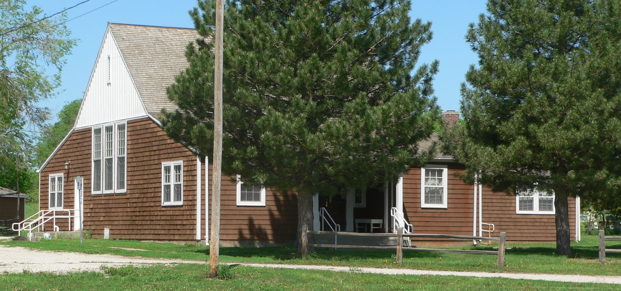 Ponca Tribe of Nebraska community buildings, located at 88915 521 Avenue, south of Niobrara in rural Knox County, Nebraska. Main building, seen from the southeast.